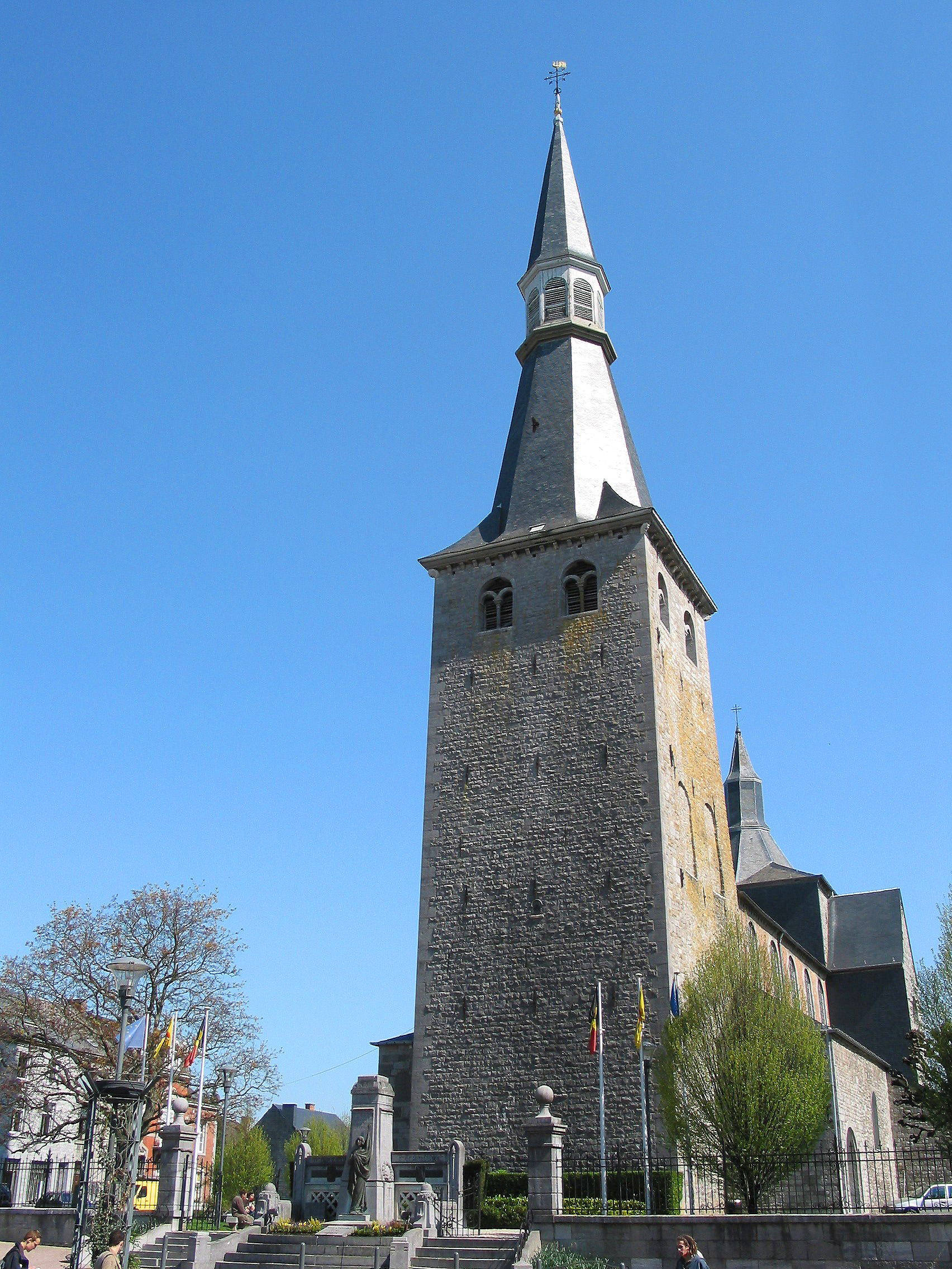 Ciney, the St-Nicolas colegiate church (before the storm of the 14th July 2010).